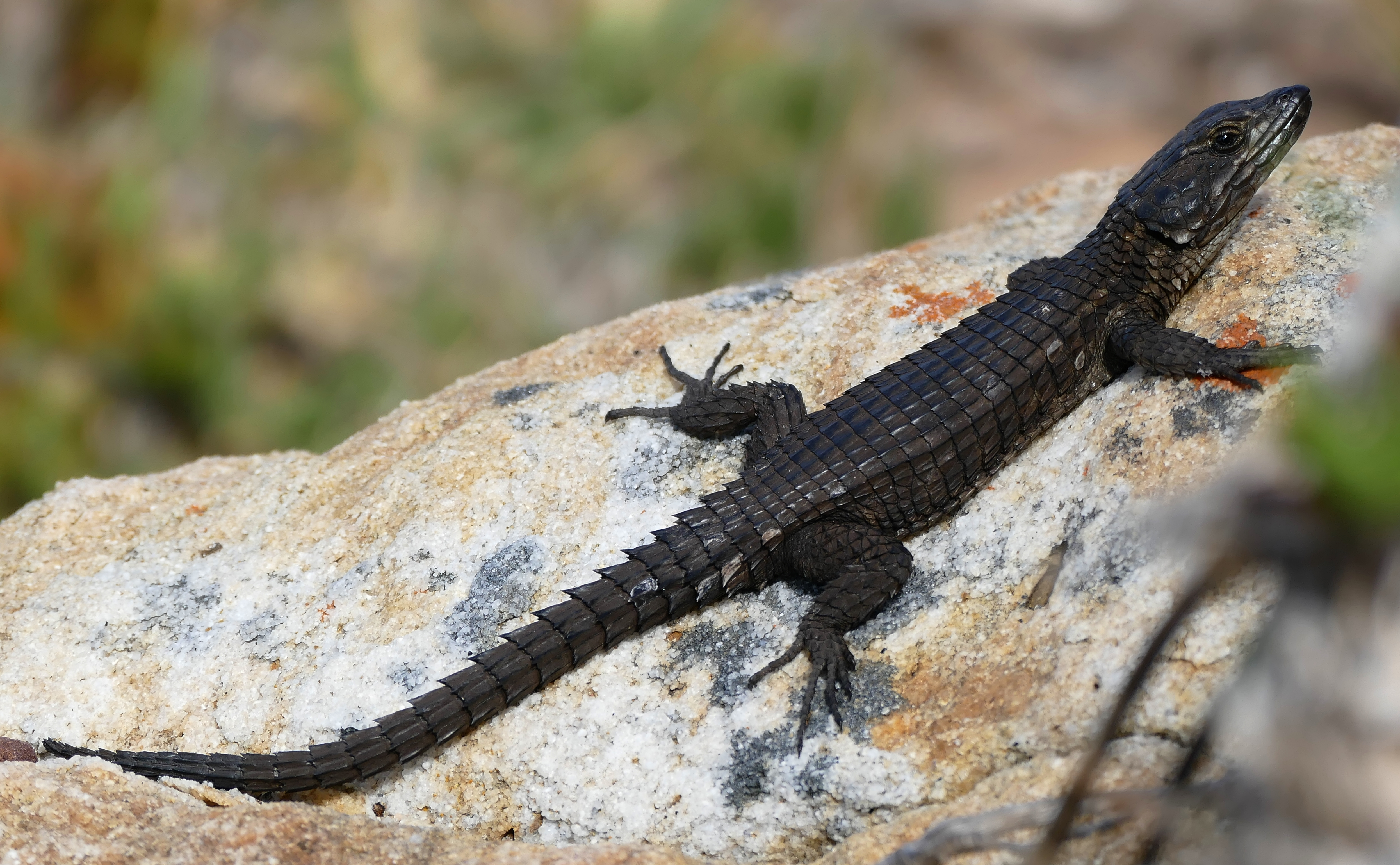 Buffels Bay, Cape of Good Hope Peninsula, Western Cape, SOUTH AFRICA